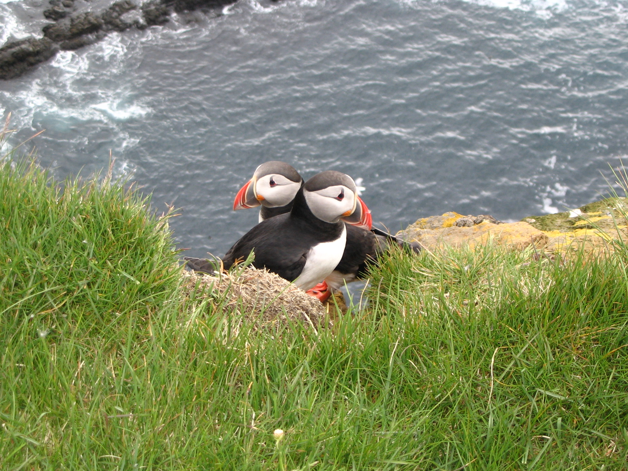 Atlantic Puffin at Látrabjarg, Iceland